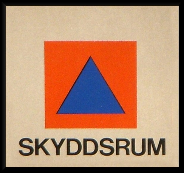 Swedish air raid shelter sign